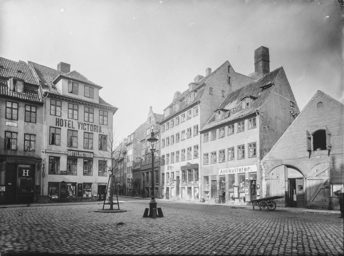 The small space at the junction of Store Strandstræde and Lille Strandstræde in Copenhagen, Denmark.